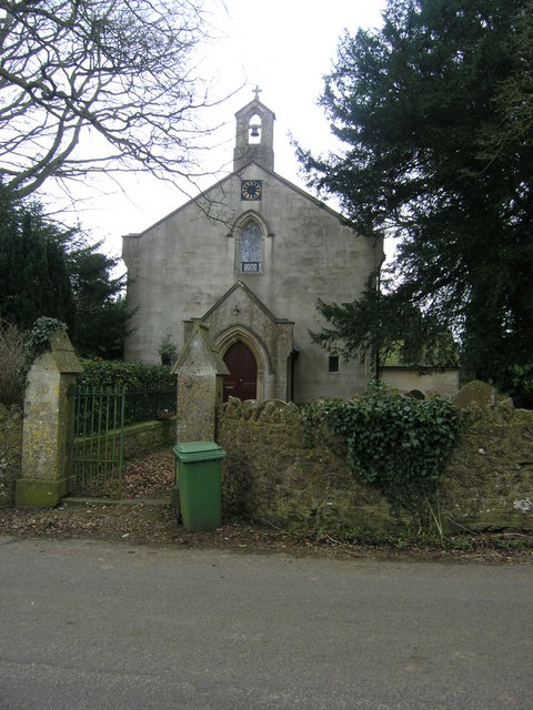 Former Christ Church, Stockhill Road, Downside, Somersetm seen from the west. Built in 1838 as a chapel of ease to Midsomer Norton. Now redundant and converted to secular use.